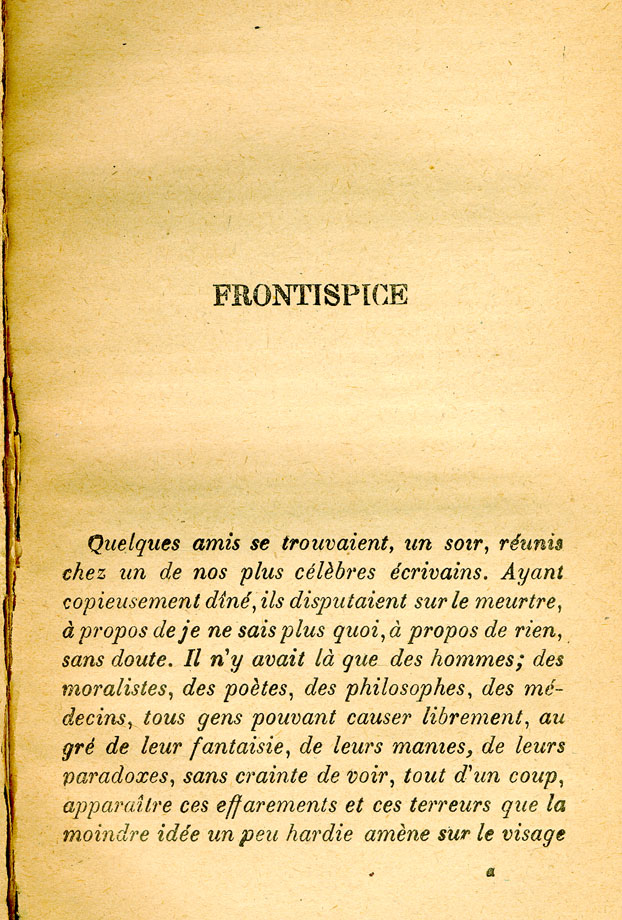 The Torture Garden (1899) by Octave Mirbeau (1848-1917)